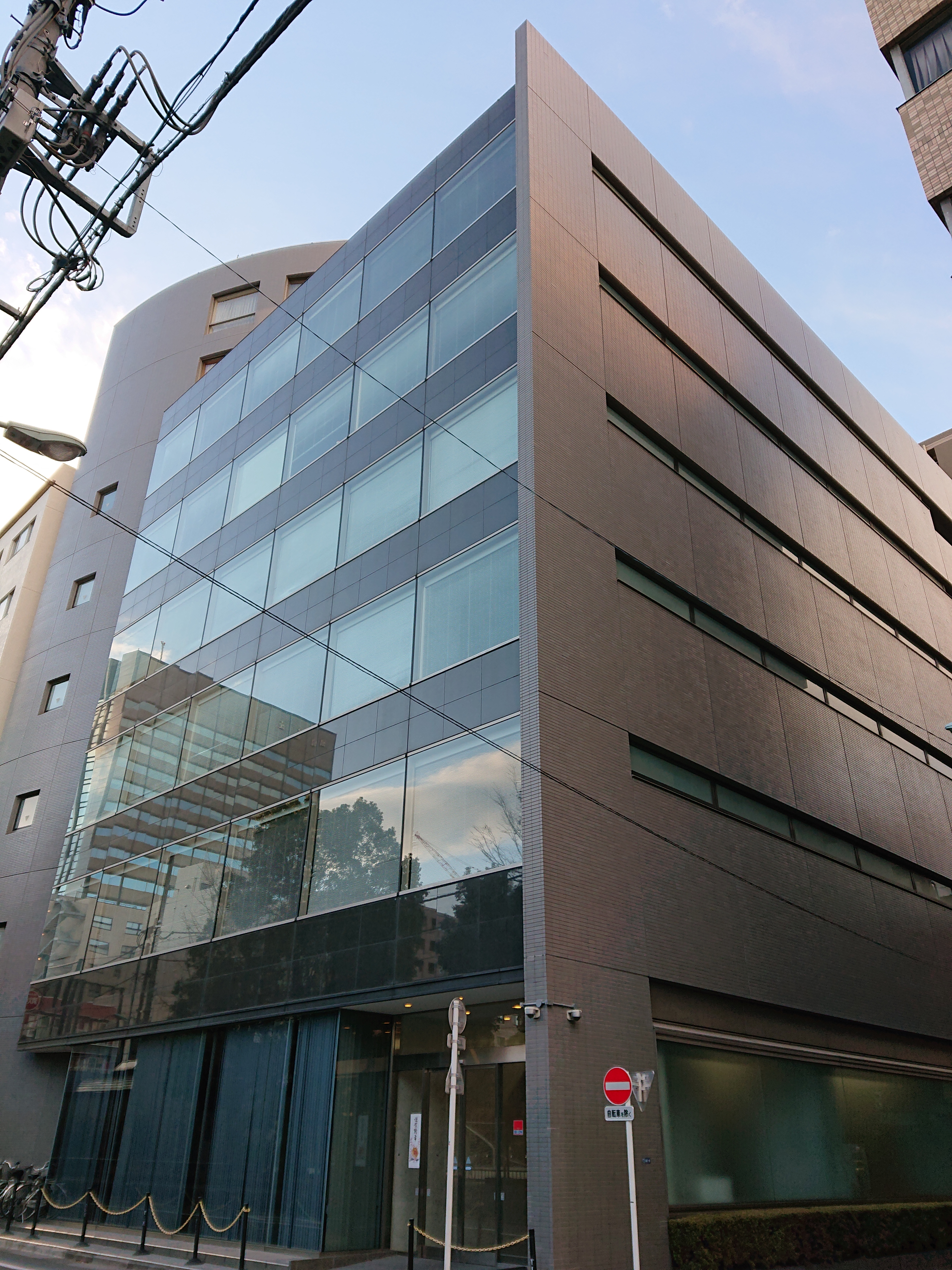 TIE Hamacho Building (TIE浜町ビル), located at 2-61-9 Nihonbashi-Hamacho, Chuo, Tokyo, Japan